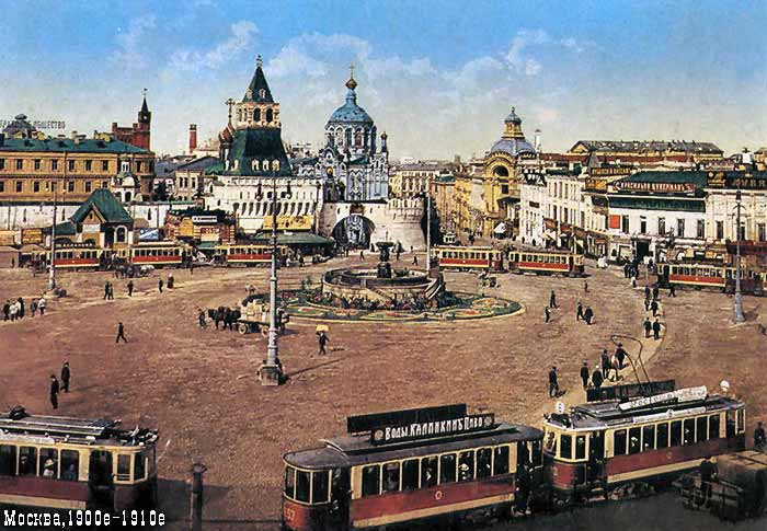 pre-revolutionaty russian postcard of Lubyanka Square